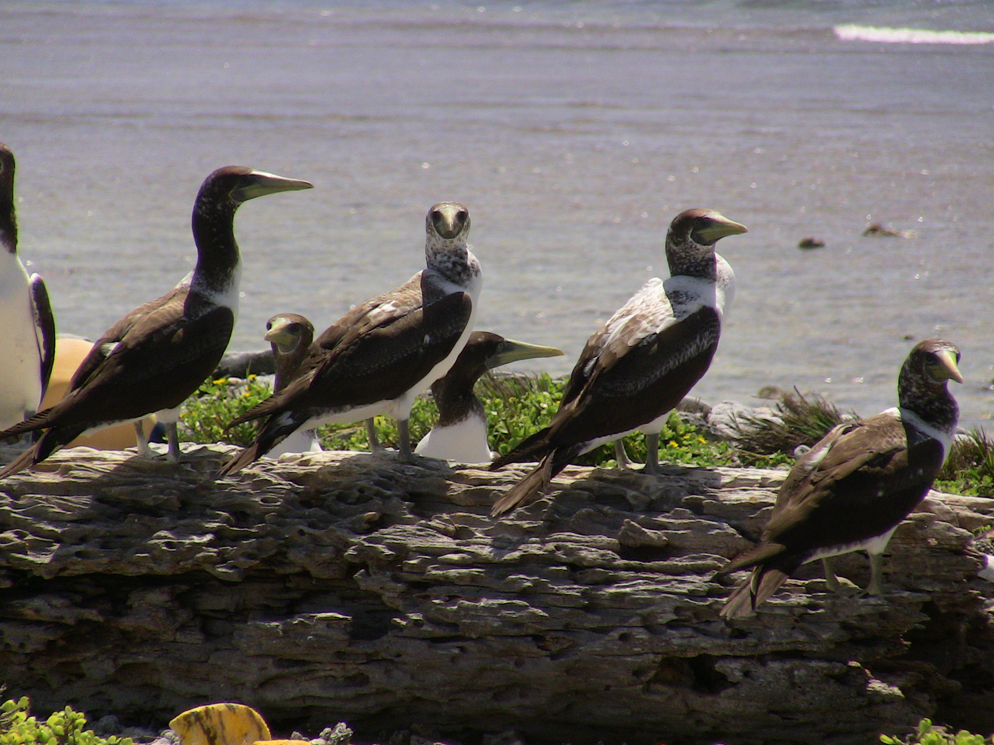 Howland Island Fauna